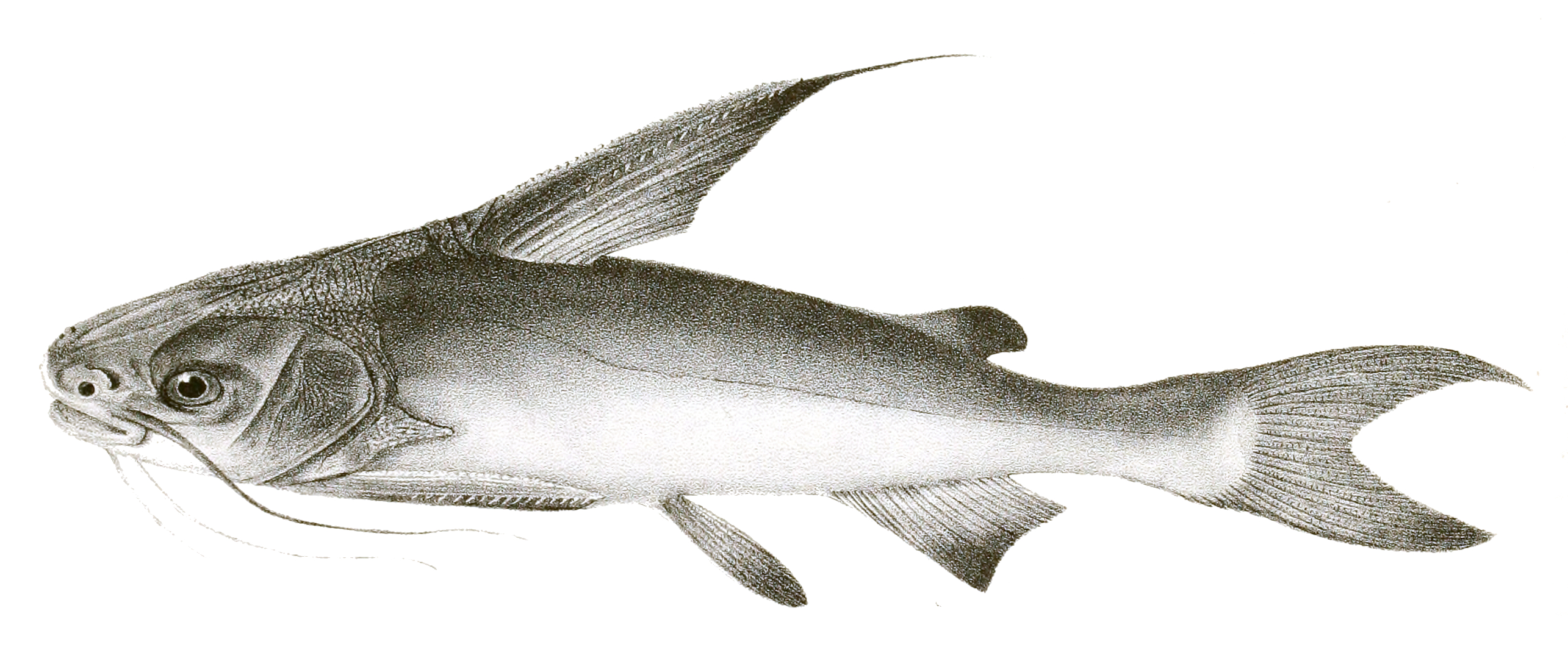 Nemapteryx nenga syn. Arius nengaThe species names / identity need verification. The original plates showed the fishes facing right and have been flipped here. Arius nenga